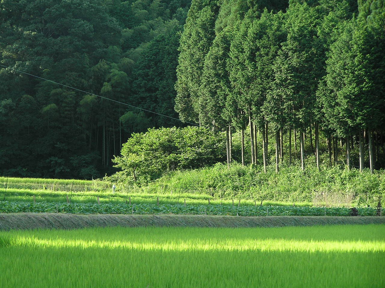 Cypress plantation, Japan